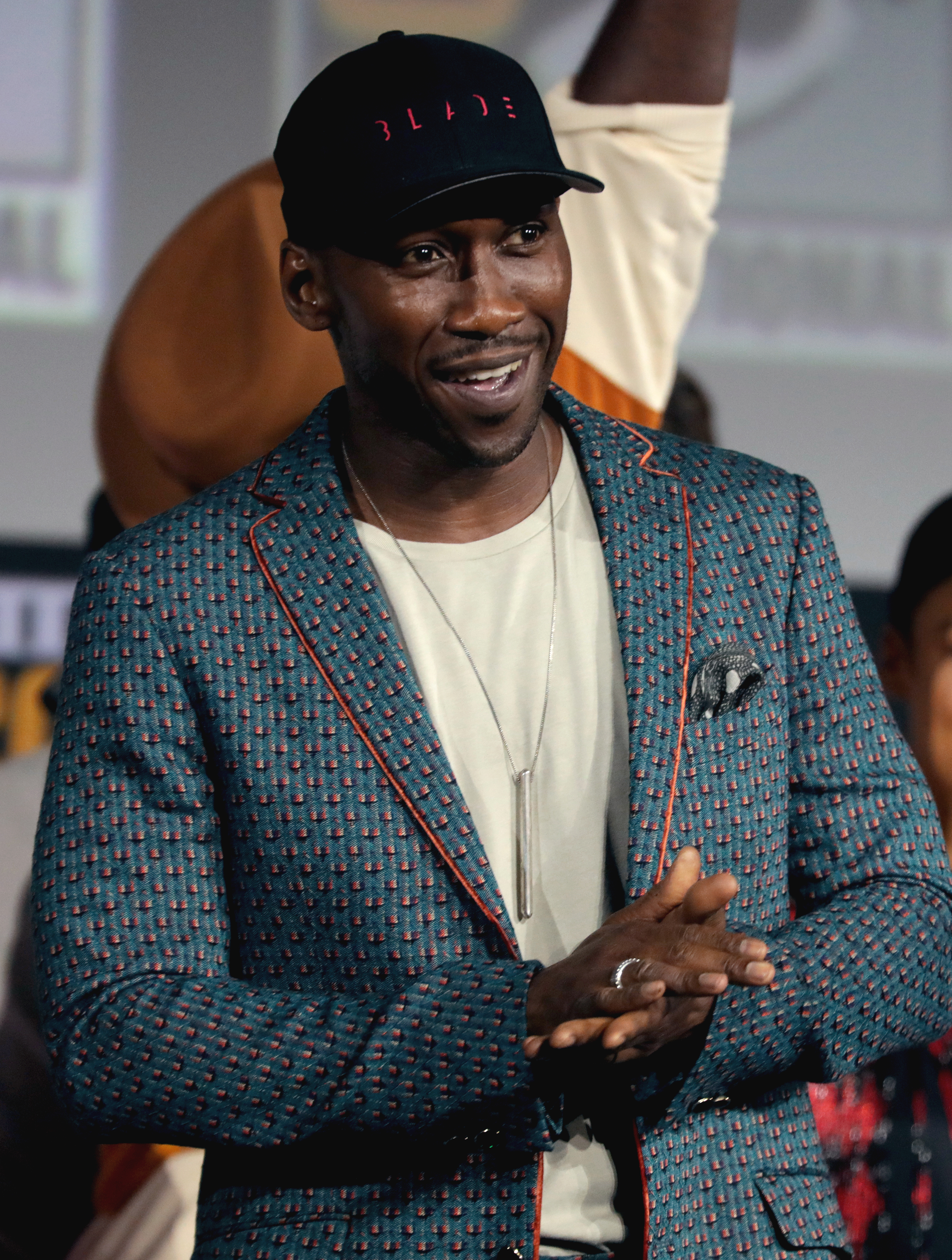 Mahershala Ali speaking at the 2019 San Diego Comic-Con International in San Diego, California.